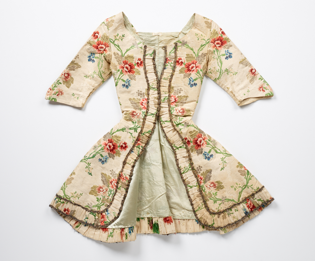 This French Casaquin was likely used to decorate a religious sculpture due to its small scale. It made from bobbin metallic lace and floral patterned silk.